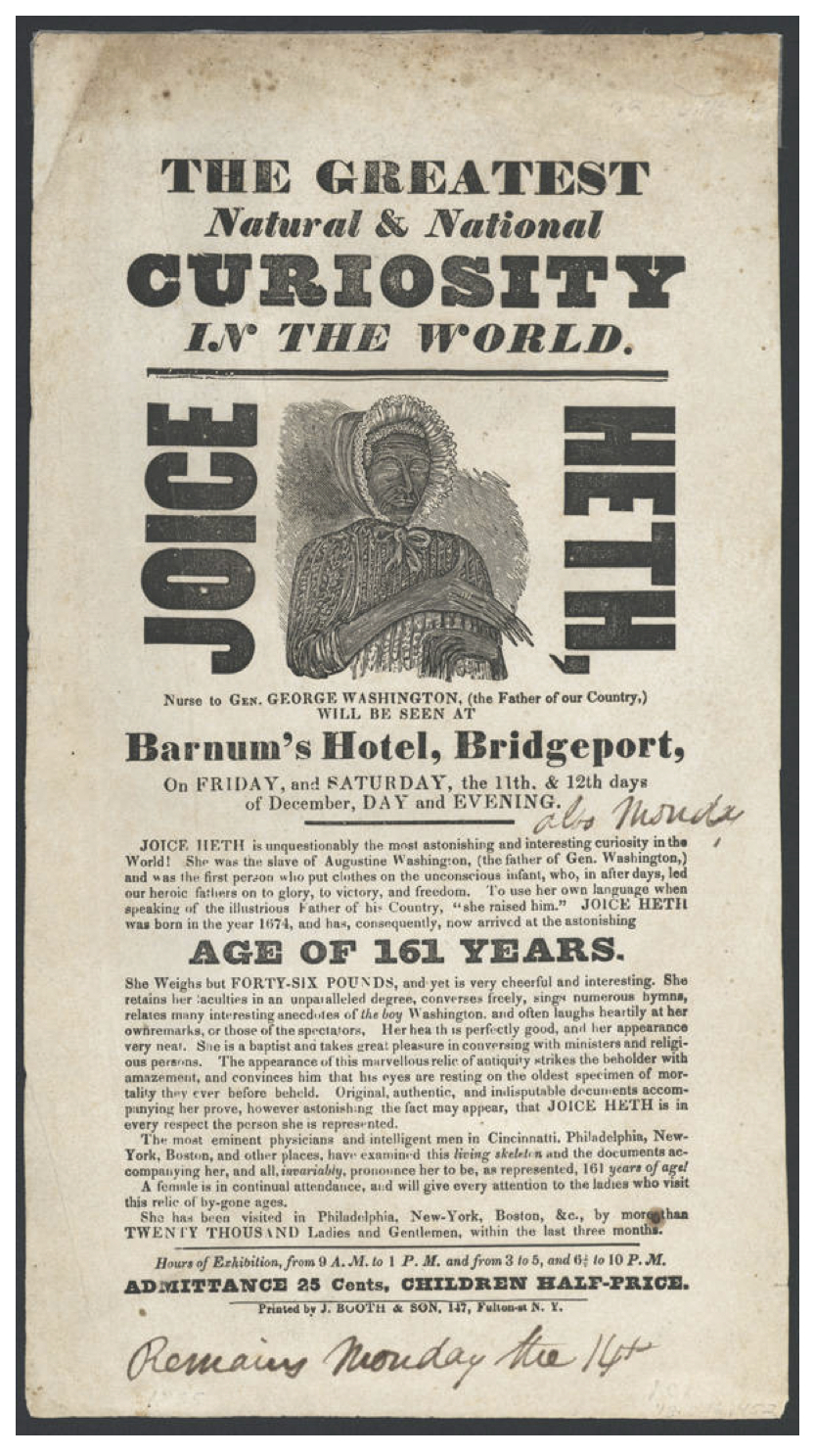 Printed Handbill - 12 x 6 1/2" Title: The Greatest Natural & National Curiosity in the World Joice Heth